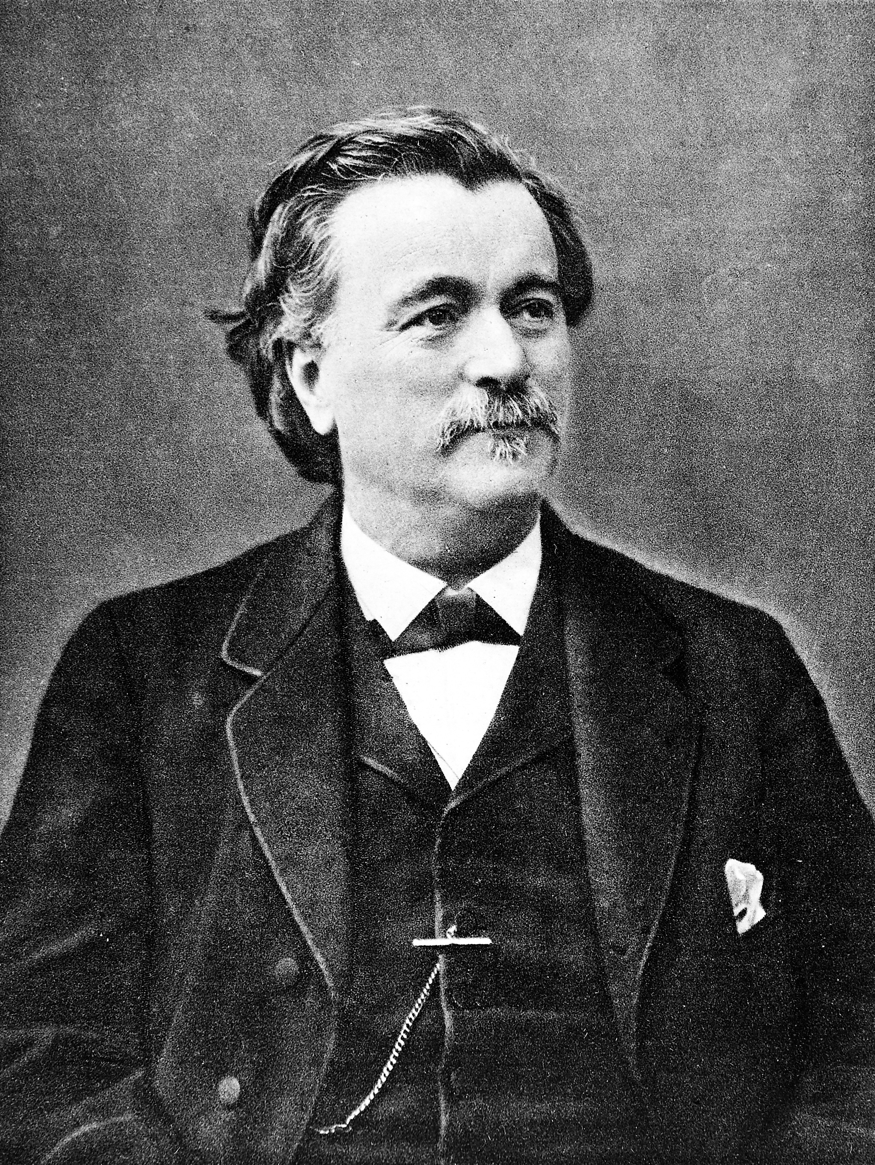 Paul Bert (1833-1886). Professor of Physiology at the Sorbonne General Collections Keywords: Physiologist; Paul Bert